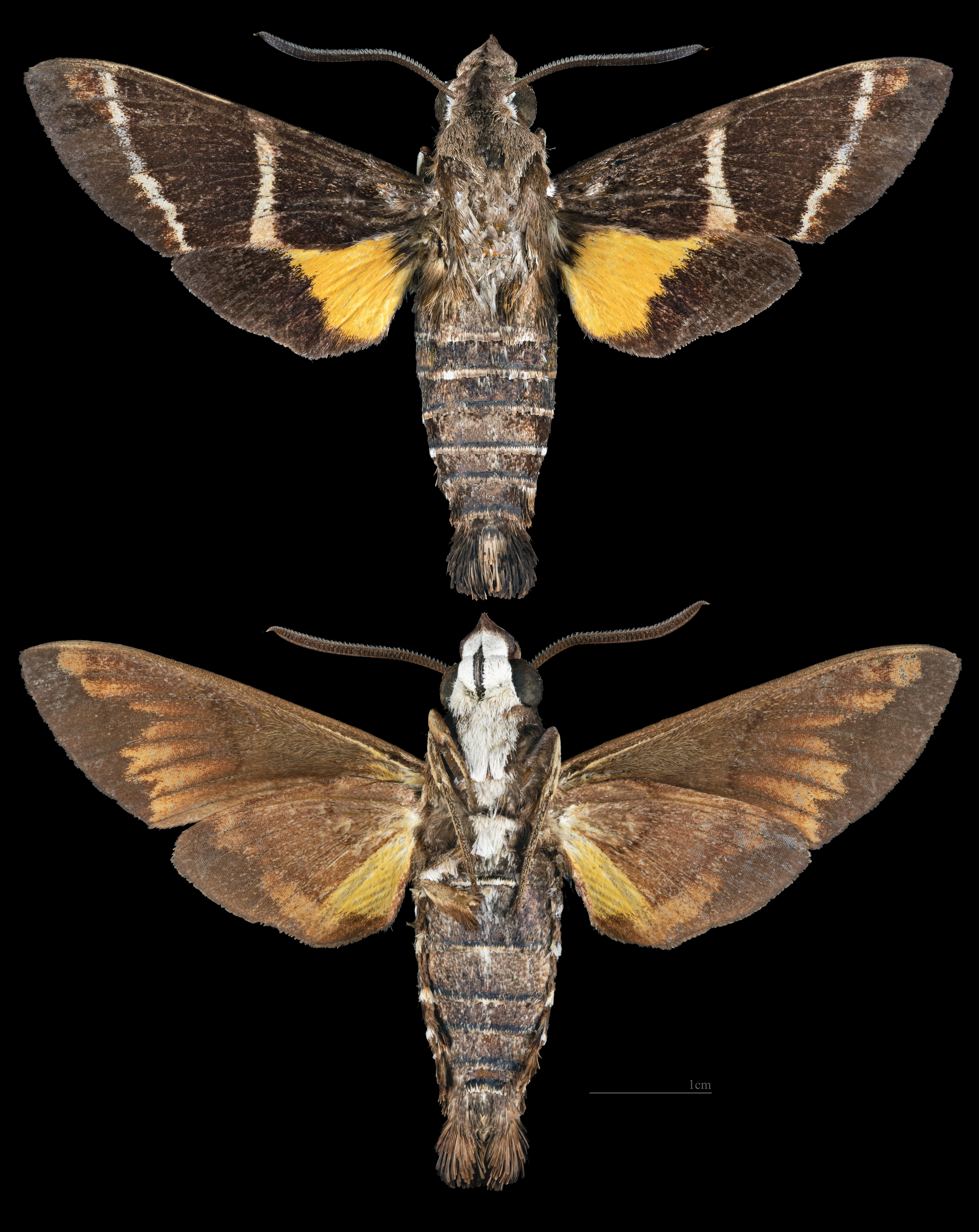 Macroglossum dohertyi - Two views of same specimen Collection of the Mathematician Laurent Schwartz